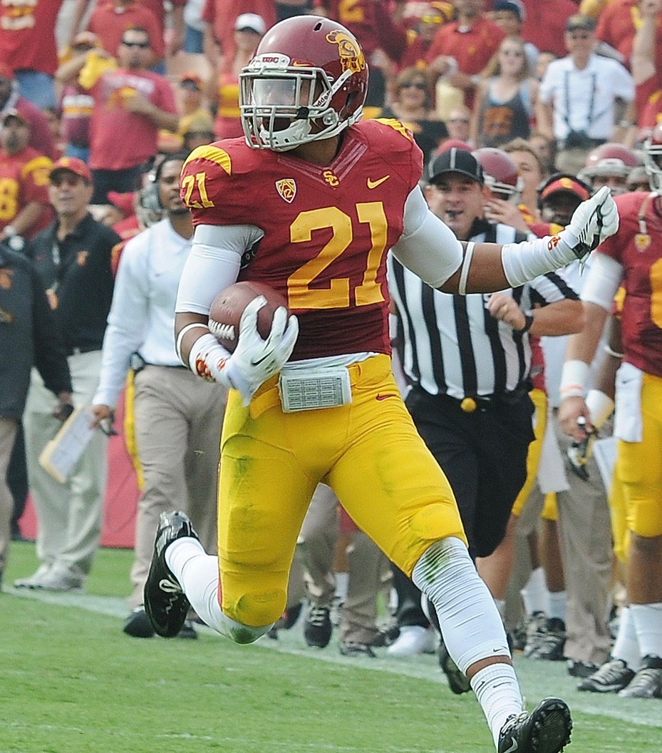 USC Trojans safety, Su'a Cravens, playing against the Utah Utes on October 26, 2013.